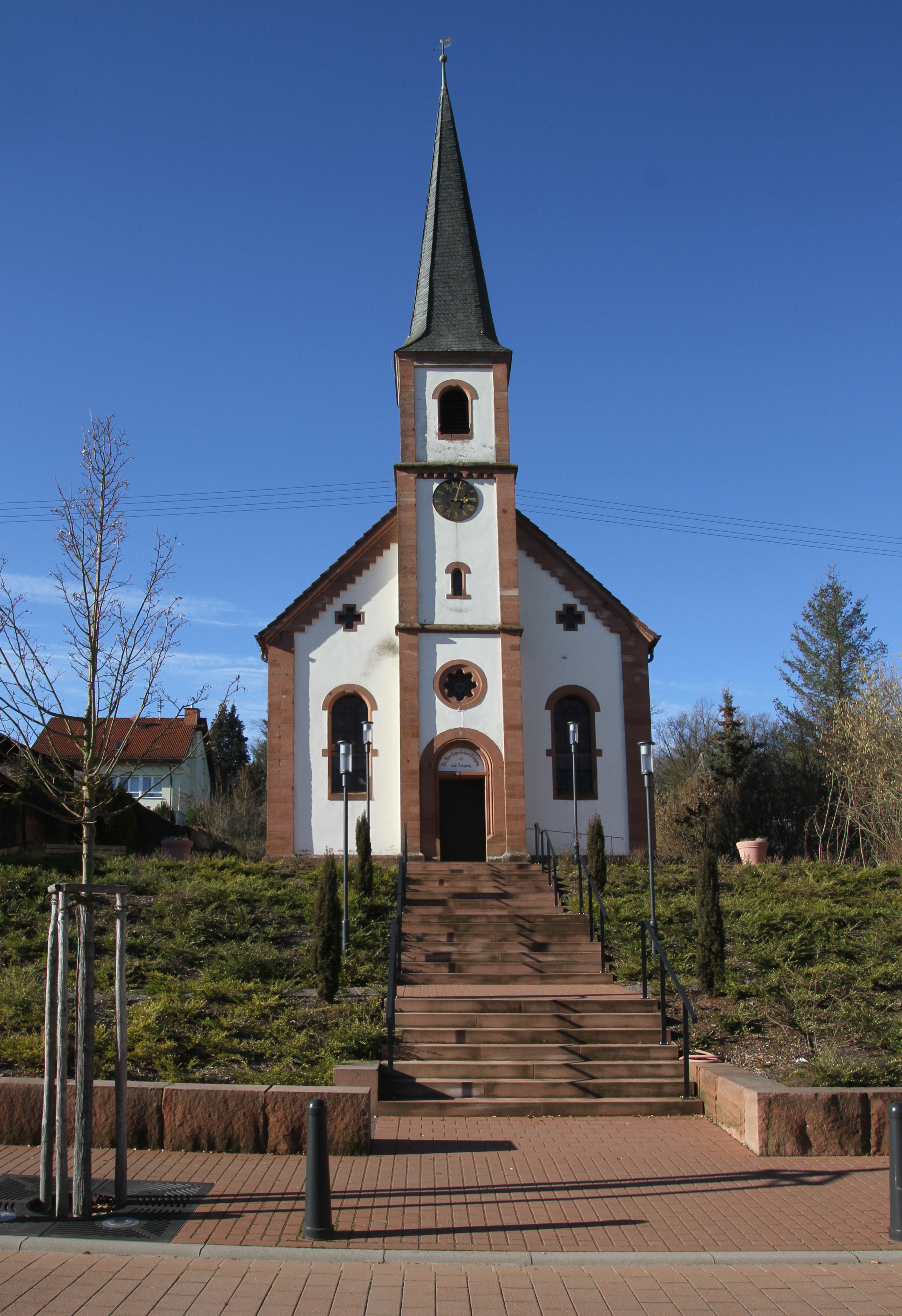 Protestant church in Ludwigswinkel